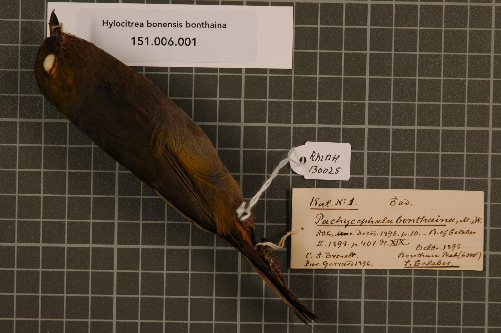 Hylocitrea bonensis bonthaina (Meyer & Wiglesworth, 1896)